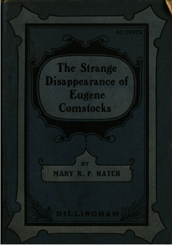 Book cover of "The Strange Disappearance of Eugene Comstocks", by Mrs. Mary R.P. Hatch